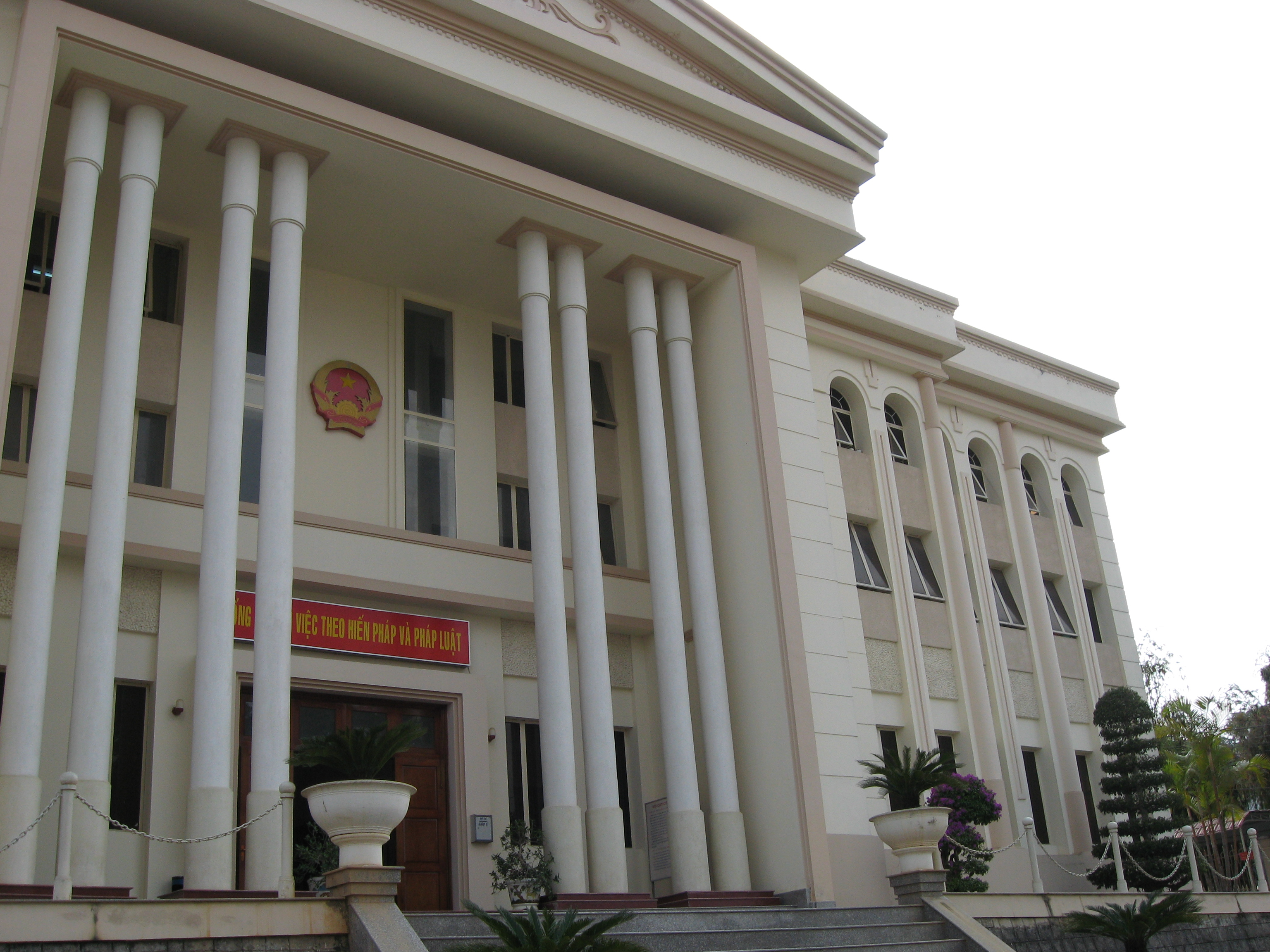 Lam Dong People's Courts, Da Lat